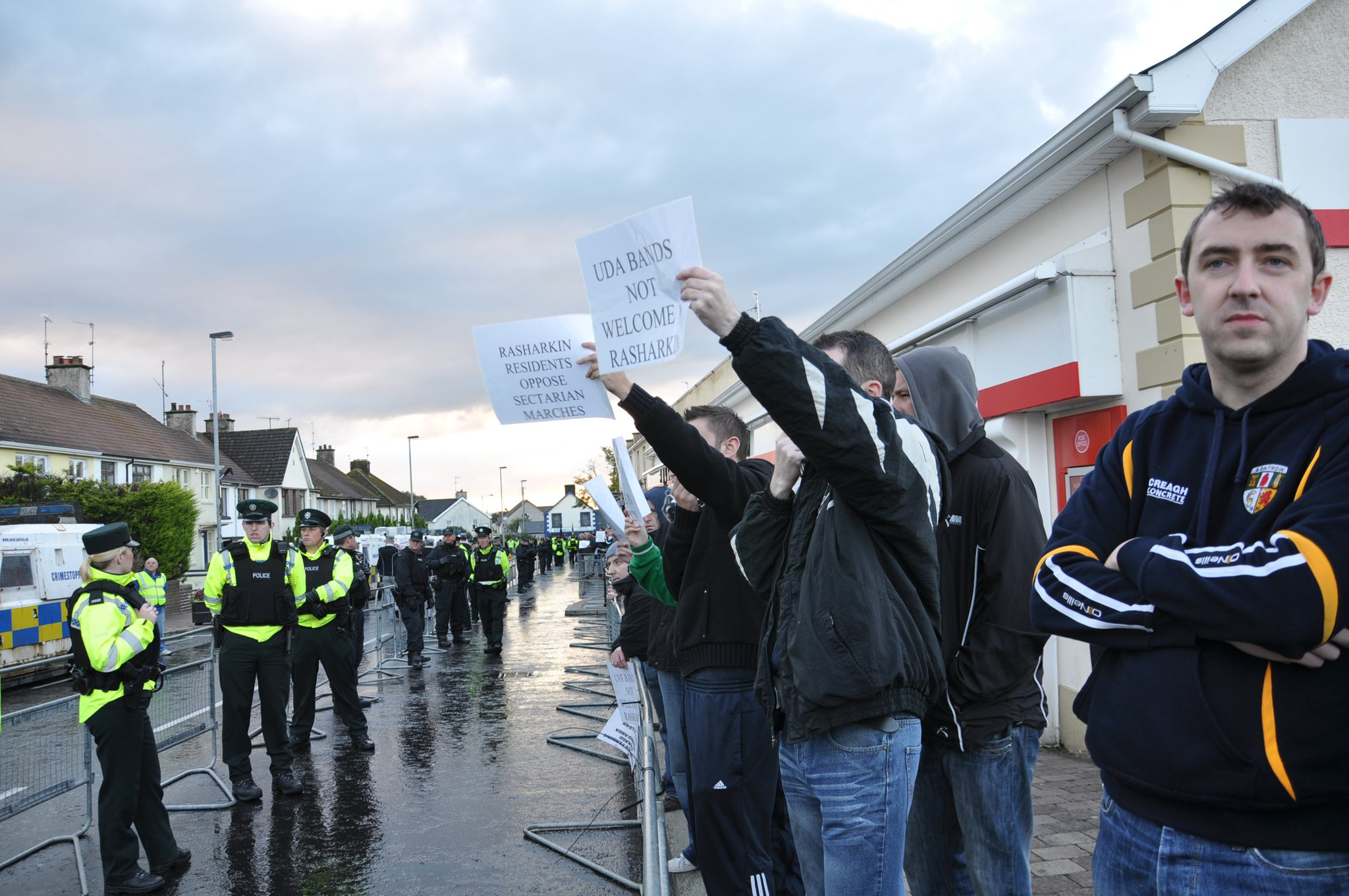 Daithi McKay at a protest against a loyalist band parade in Rasharkin in 2011